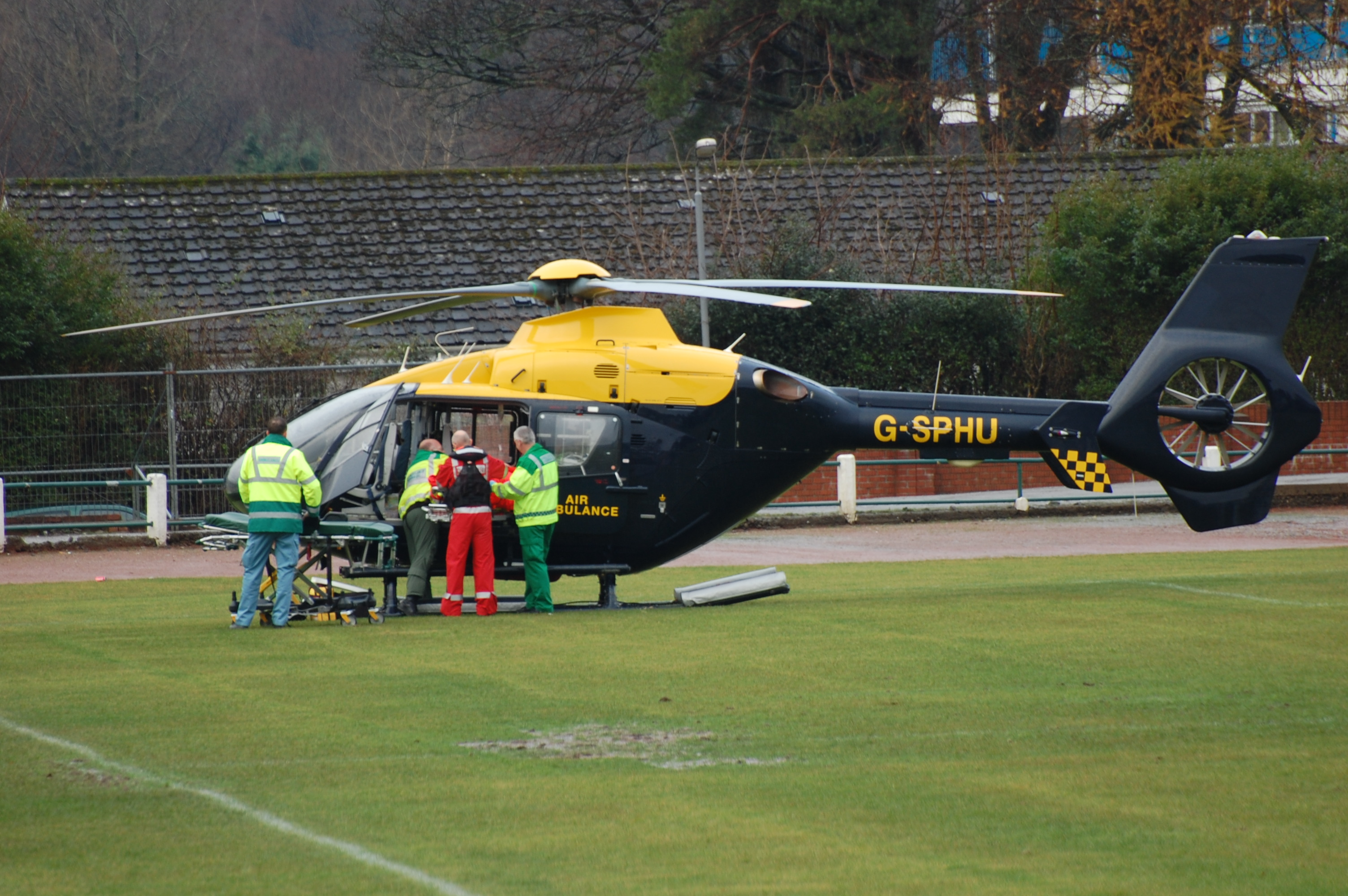 The retrieval team (red) with Paramedics (green) load a patient for the Southern General Hospital in Glasgow